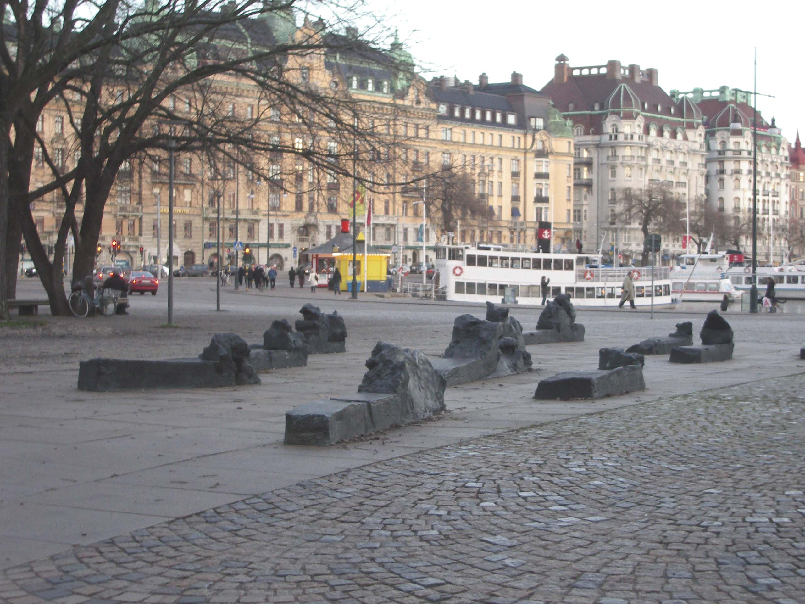 Raoul Wallenberg Memorial by Kirsten Ortwed, Raoul Wallenberg Square, Stockholm, Sweden